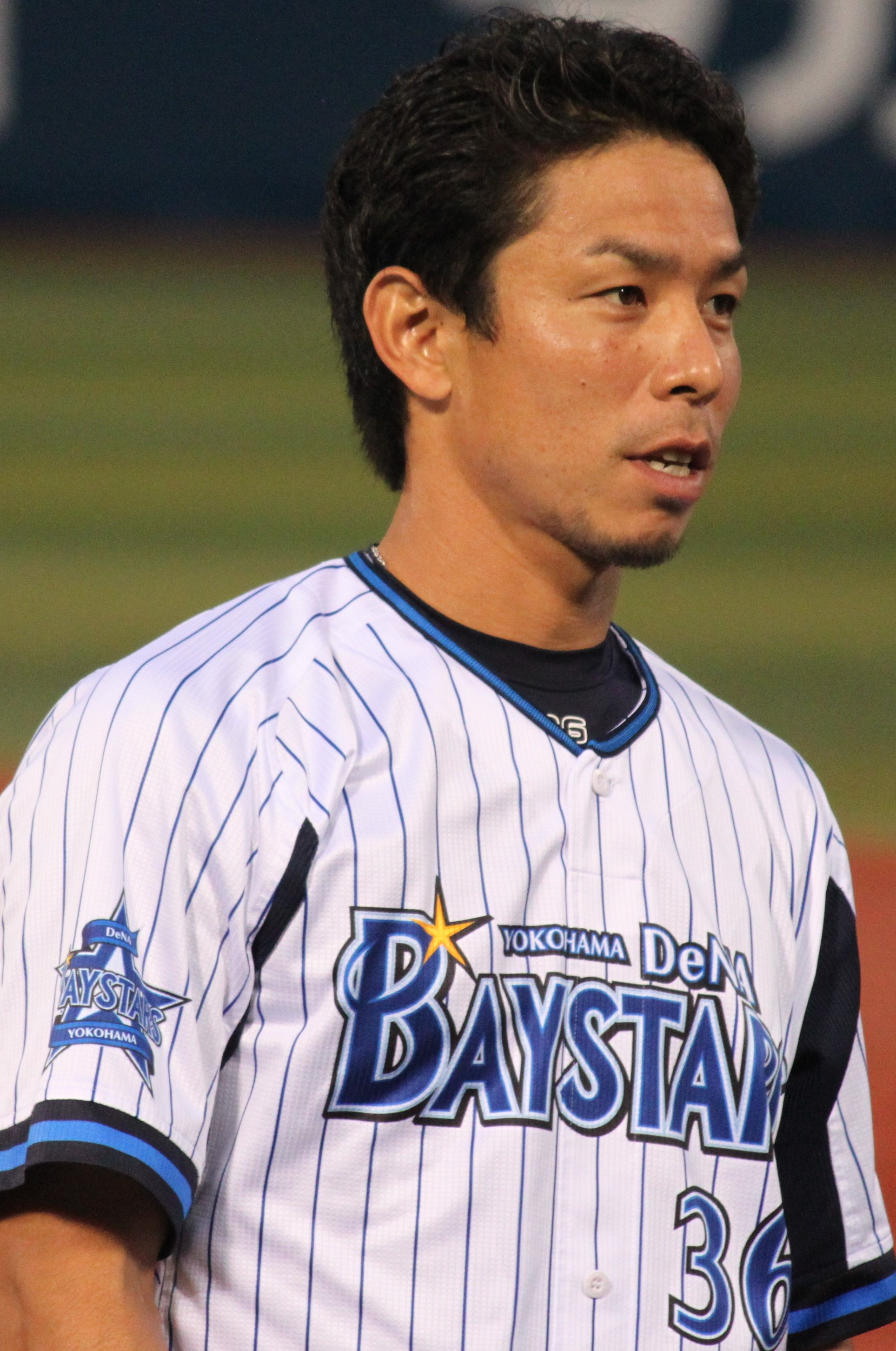 Shigeo Yanagida, infielder of the Yokohama DeNA BayStars, at Yokohama Stadium.